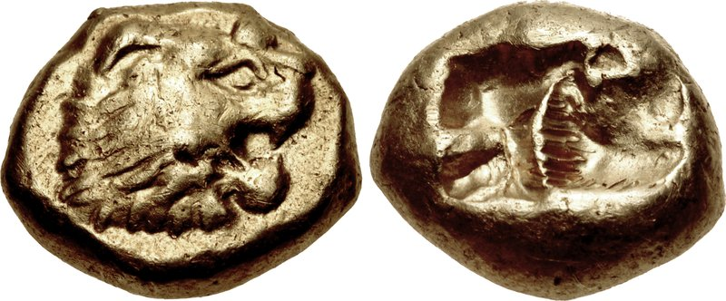 KINGS of LYDIA. Alyattes. Circa 620-10-564-53 BC